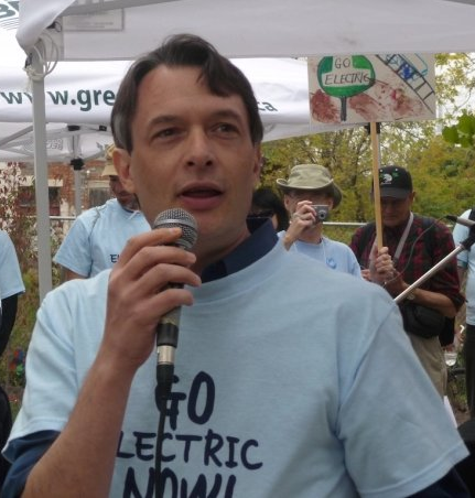 Ward 14 Toronto City Councillor Gord Perks speaking during the Clean Train Coalition's protest in Sorouren Park in 2009.